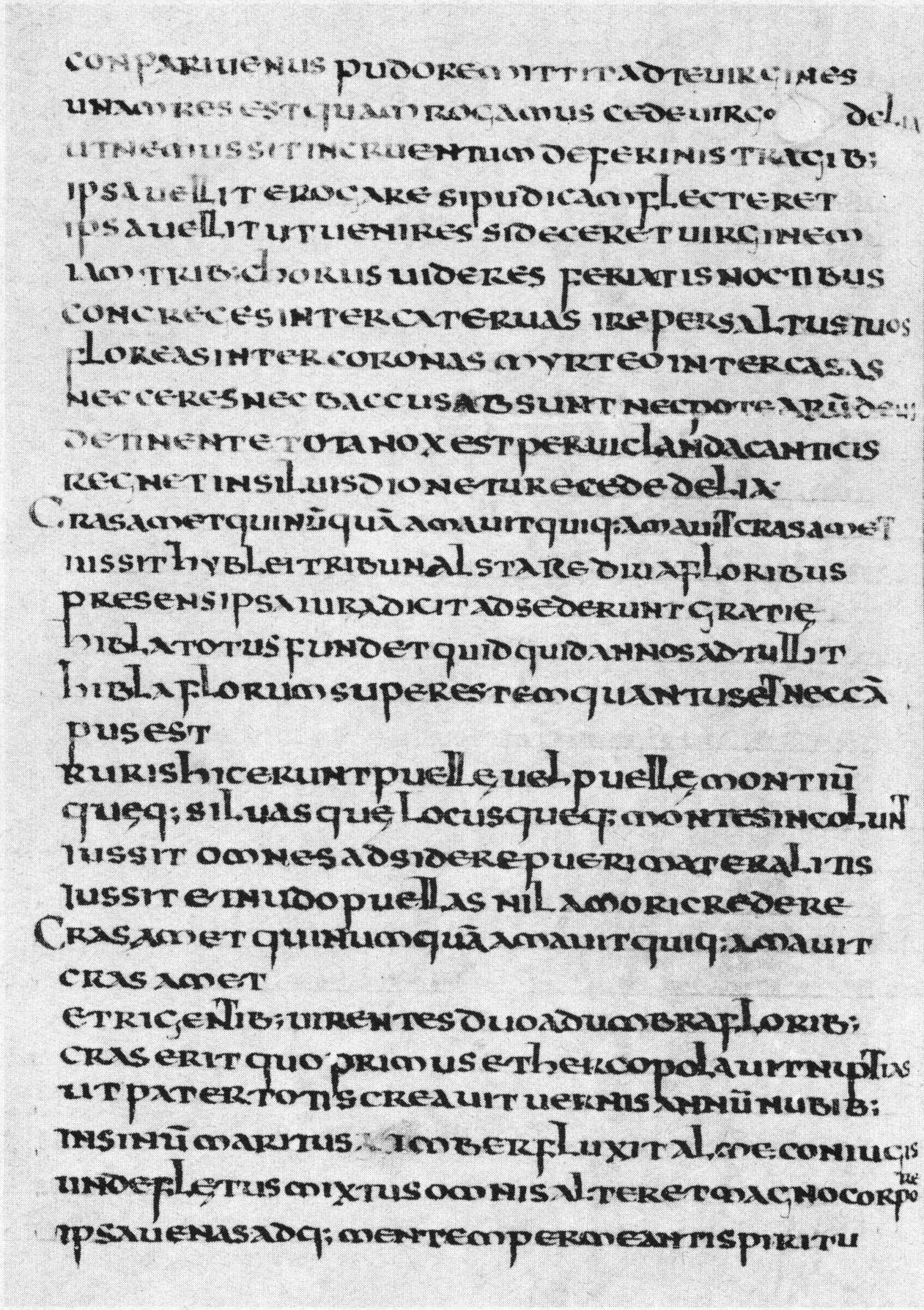 Pervigilium Veneris. Paris, Bibliothèque Nationale, Ms. lat. 10318.